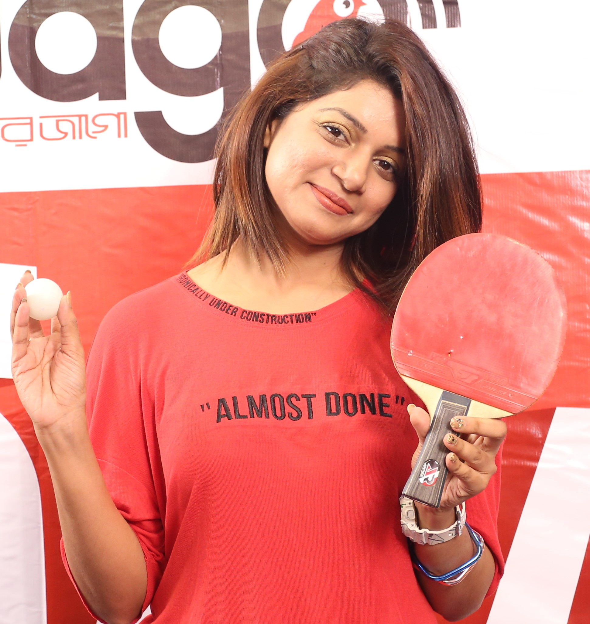 Sohana Saba is a Bangladeshi television and film actress.